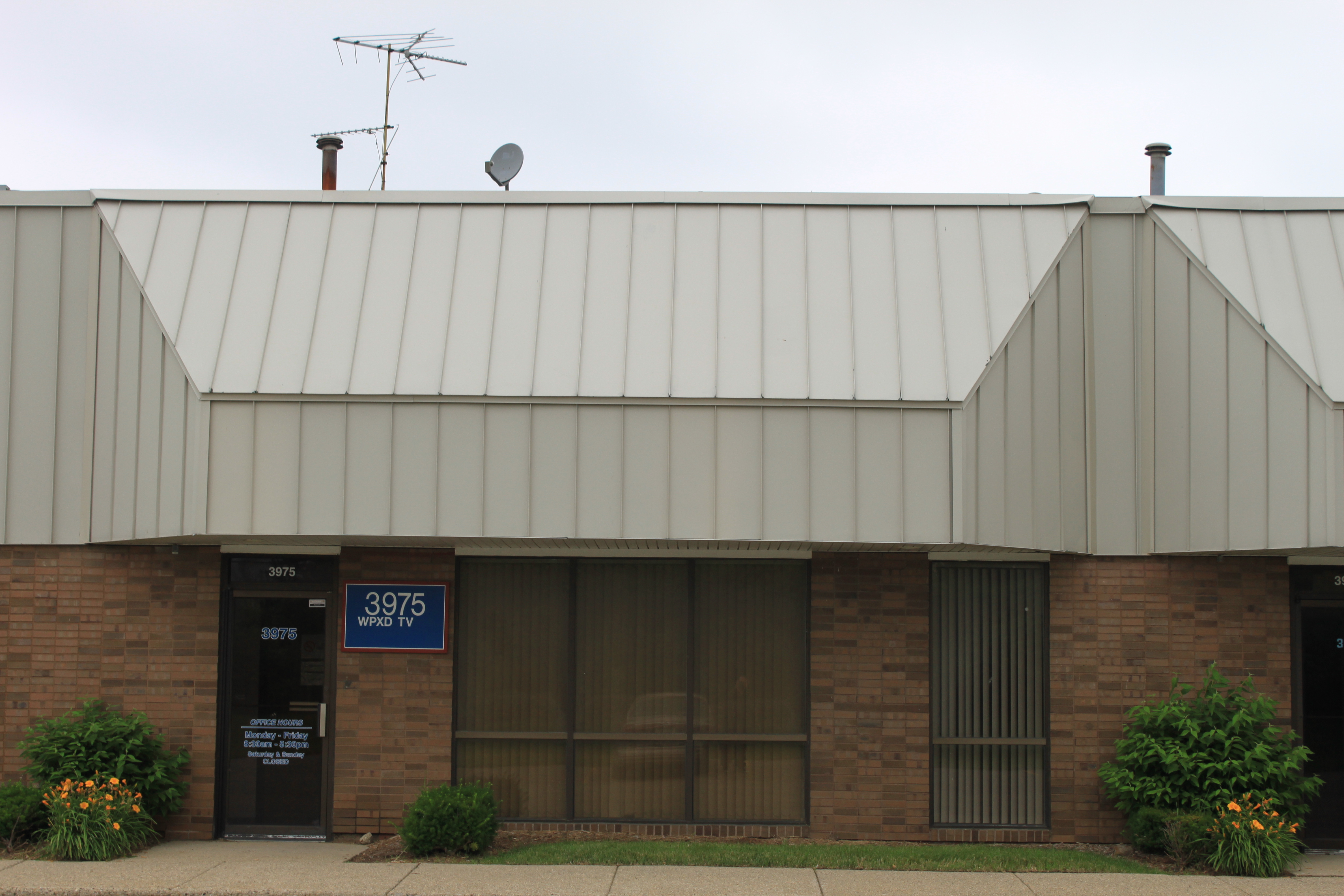 WPXD-TV offices, 3975 Varsity Dr., Ann Arbor, Michigan